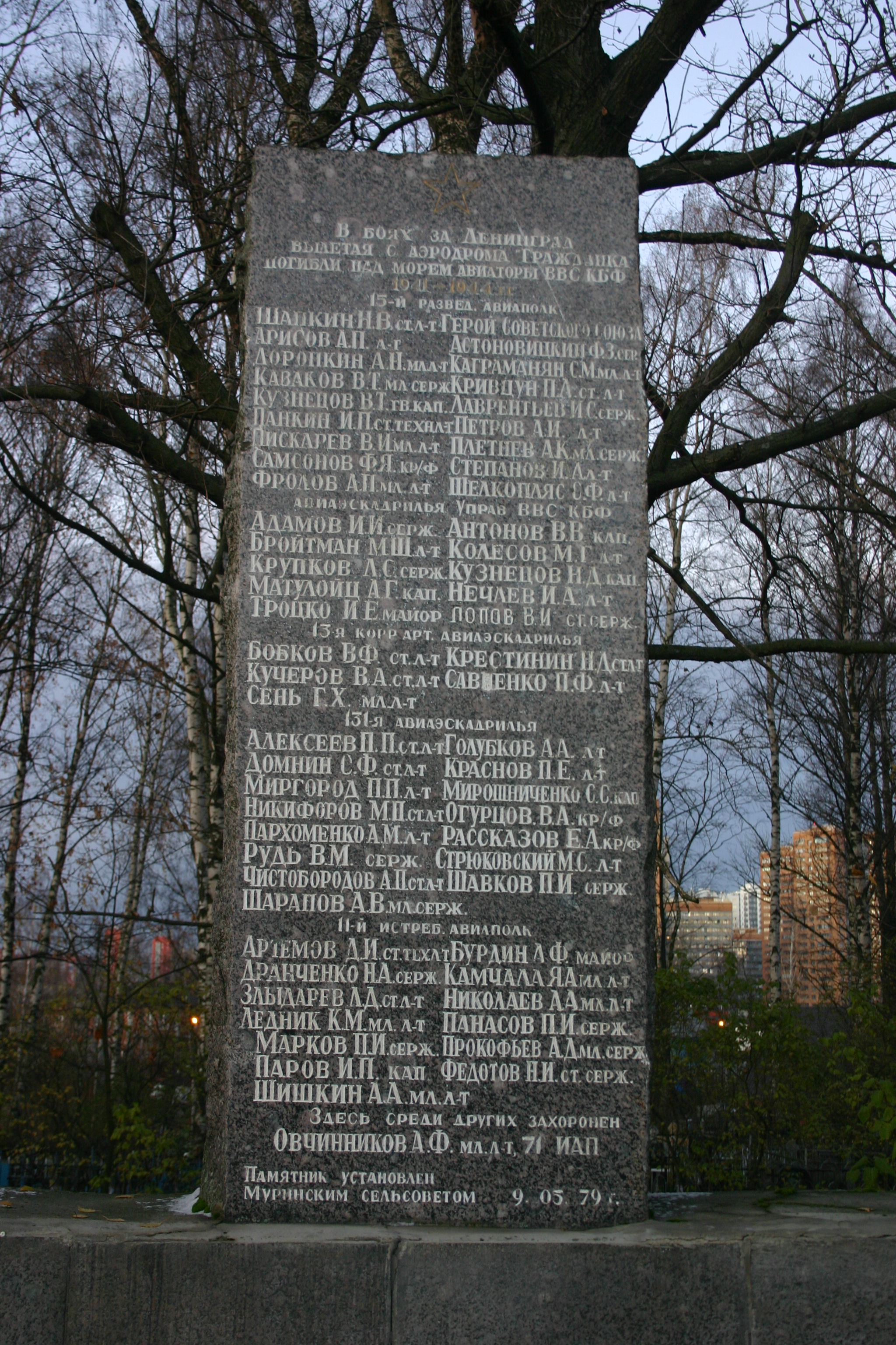 Seventh from the left side plate of Murino WWII pilots memorial.